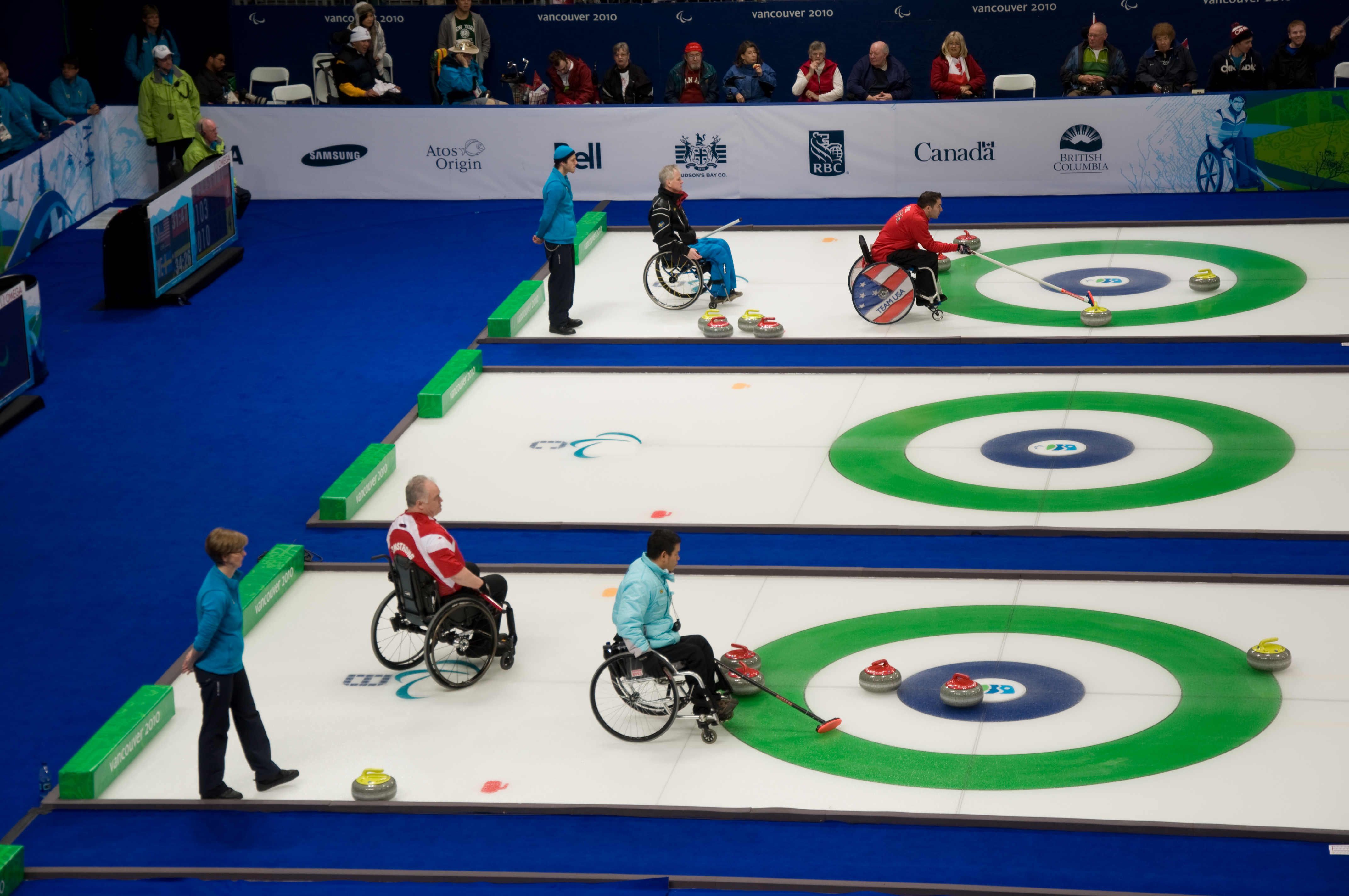 The medal round of wheelchair curling at the 2010 Winter Paralympics in Vancouver, Canada. Above, the United States competes against Sweden in the bronze medal game. Below, South Korea competes against Canada in the gold medal game.